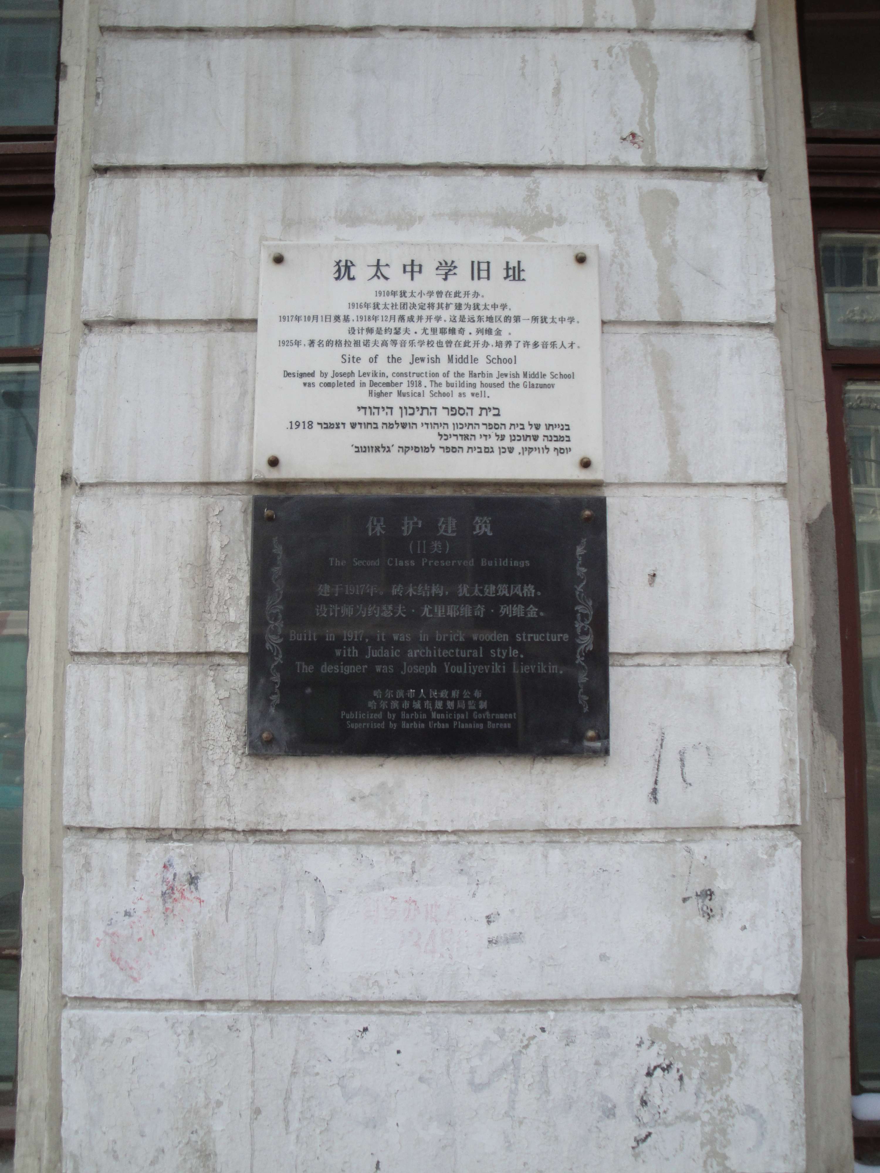 Commemorative sign at the site of the former Jewish Middle School, Tongjiang Street, Daoli District, Harbin.